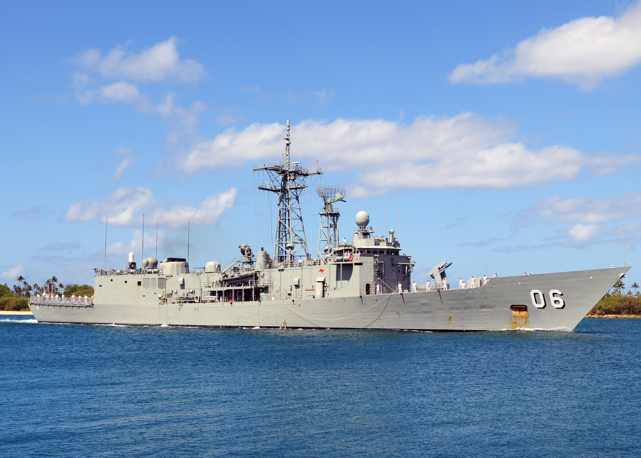 PEARL HARBOR (June 24, 2010) The Royal Australian Navy Adelaide-class guided-missile frigate HMAS Newcastle (FFG 06) pulls into Joint Base Pearl Harbor-Hickam, Hawaii, to support Rim of the Pacific (RIMPAC) 2010 exercises. RIMPAC is a biennial, multinational exercise designed to strengthen regional partnerships and improve multinational interoperability. (U.S. Navy photo by Mass Communication Specialist 2nd Class Jon Dasbach/Released)